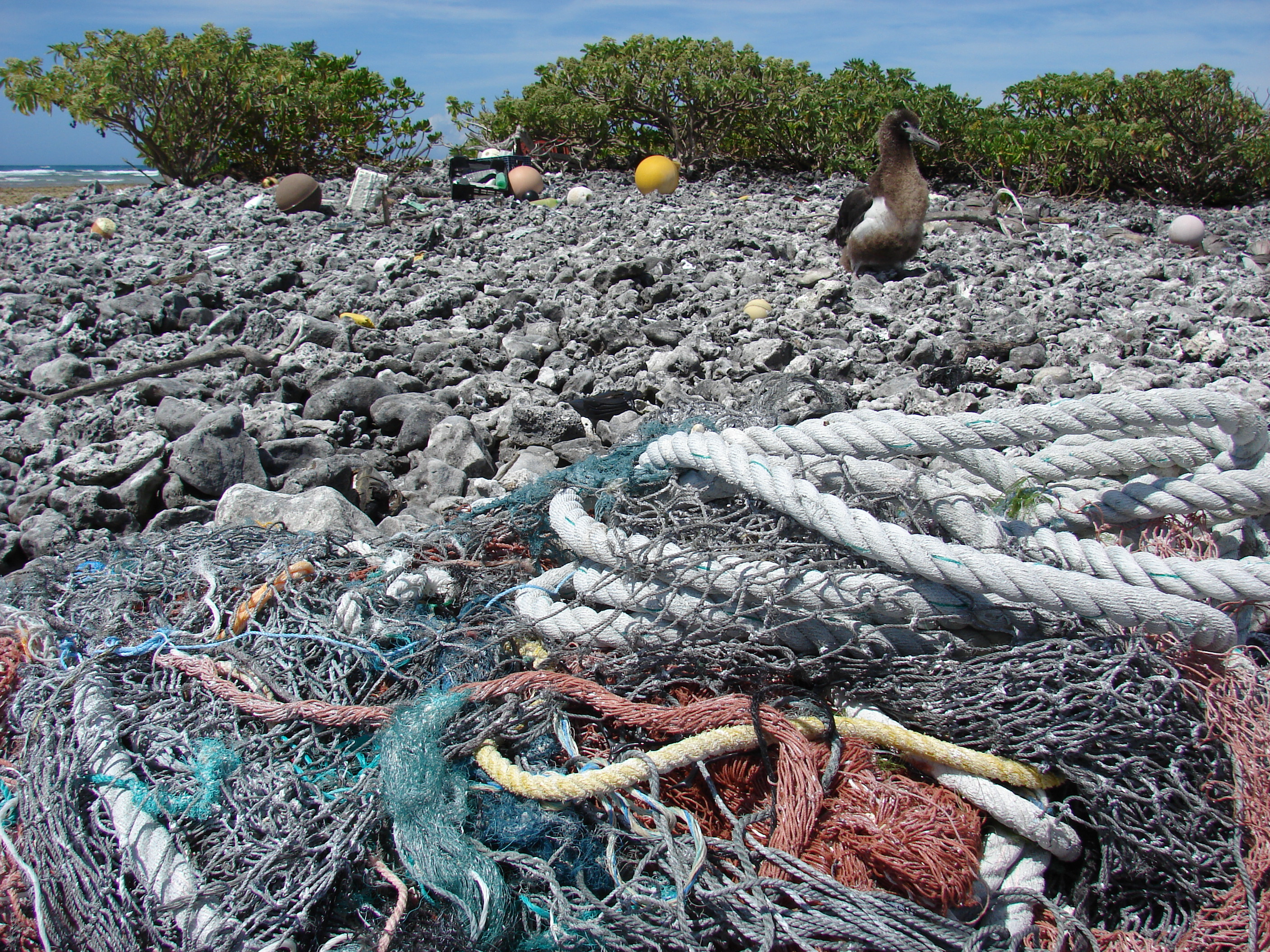 Tournefortia argentea (habit with Laysan albatross chicks and marine debris). Location: Midway Atoll, Spit Island